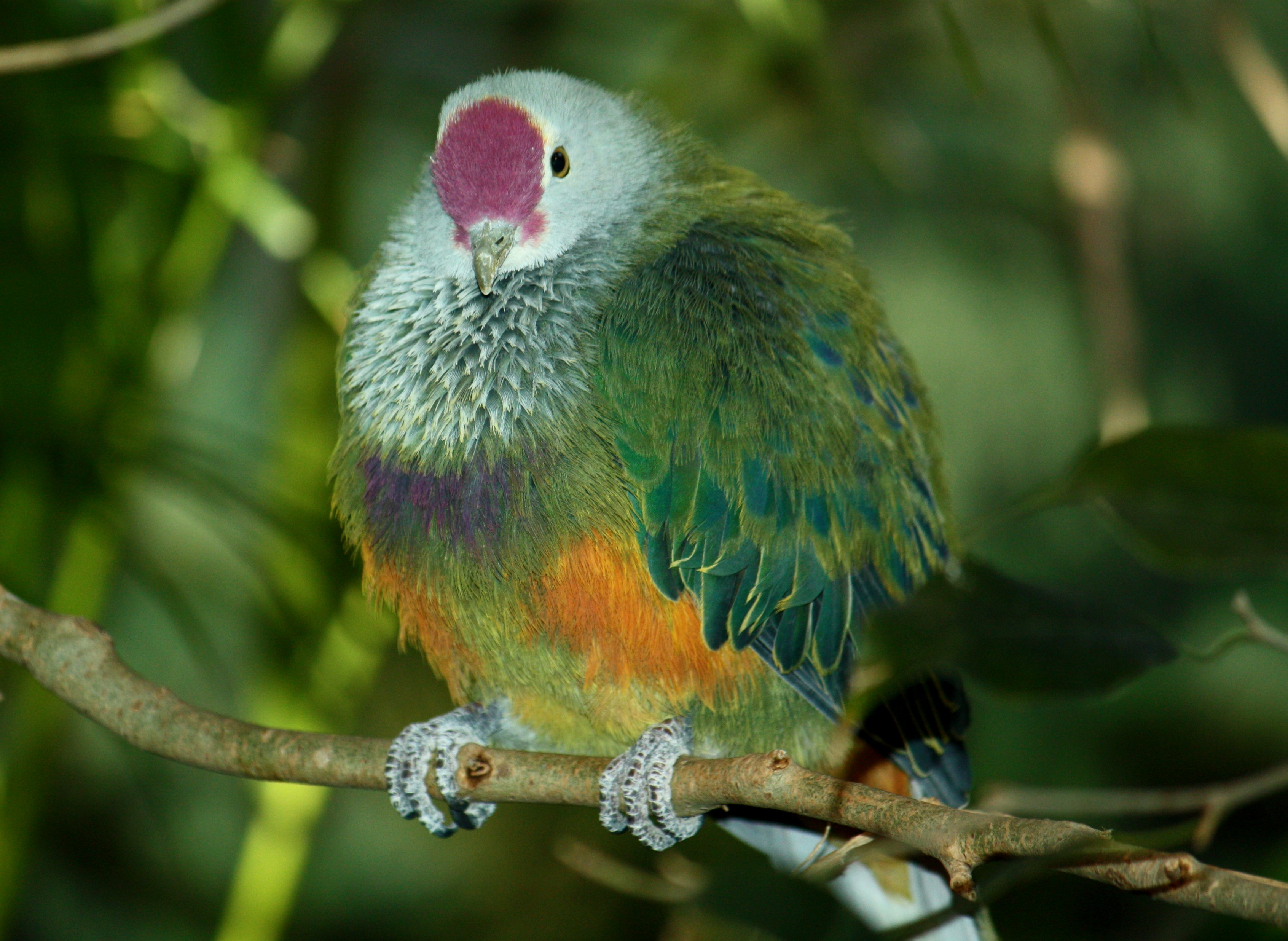 Mariana Fruit Dove Ptilinopus roseicapilla at Louisville Zoo